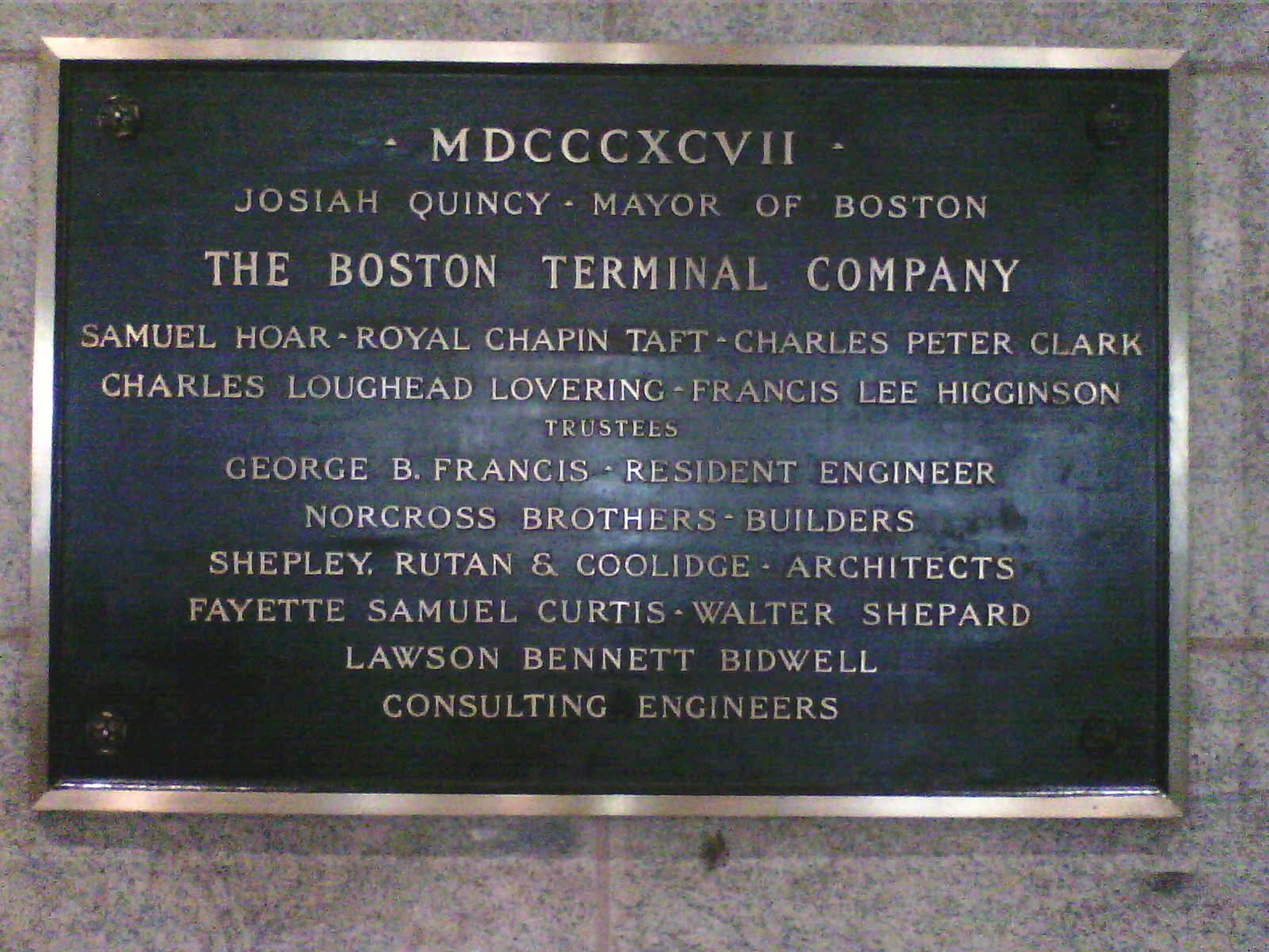 In South Staton, Boston, this is a commemorative plaque for The Boston Terminal Company with the names of the Mayor of Boston, trustees, and major people involved in the project which resulted in the consolidated railroad terminal known as South Station from many terminals in Boston.